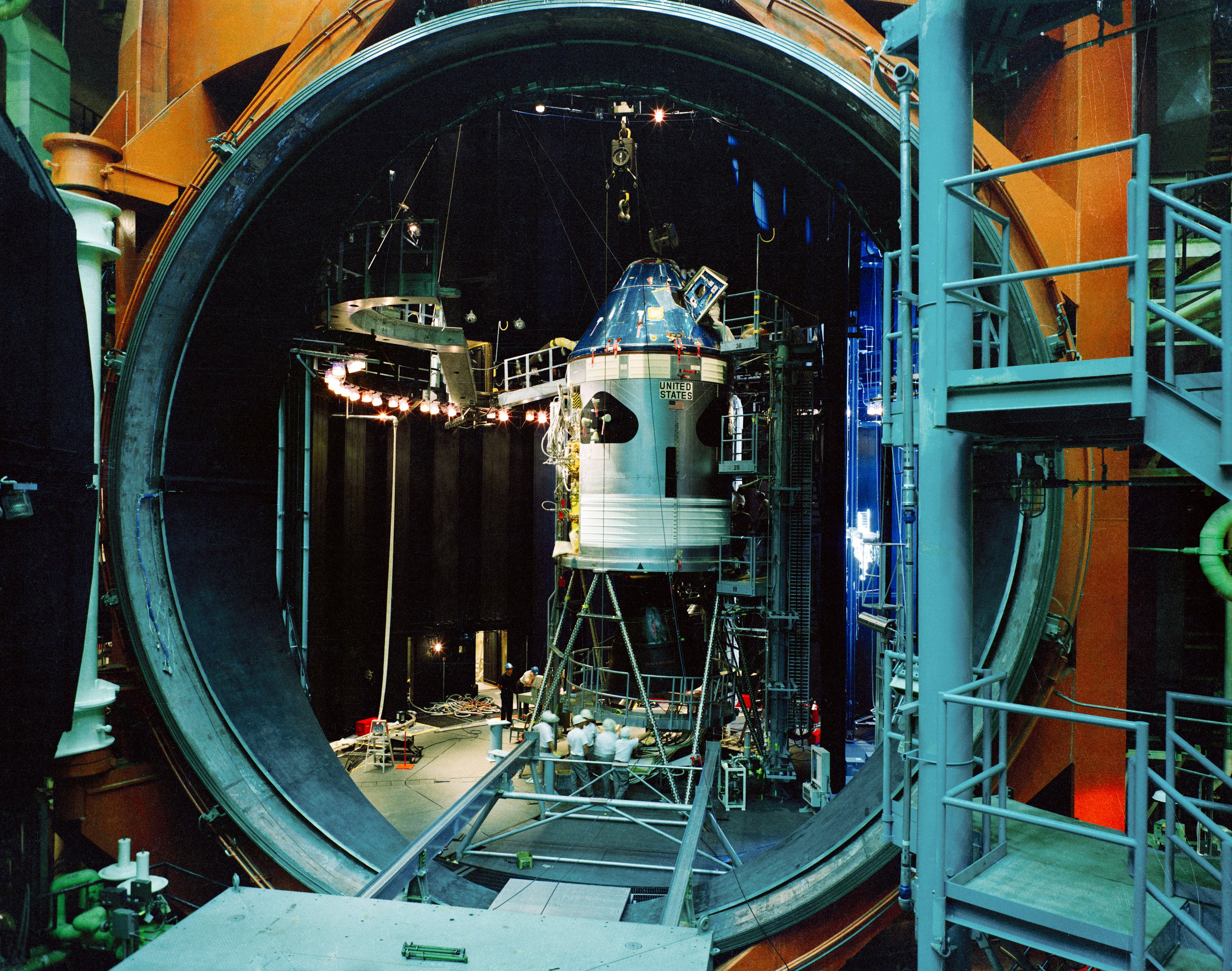 Apollo Command/Service Module 2TV-1 in Space Environment Simulation Laboratory Chamber A for a full mission duration manned vacuum test.